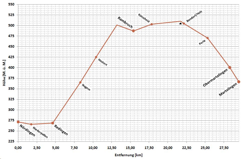 simplified altitude-profile of railway track der Nördingen—Martelingen